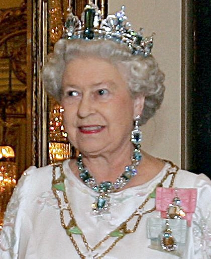 Queen Elizabeth II of the United Kingdom during a state banquet in honor of Brazilian president Lula da Silva at Buckingham Palace, London.